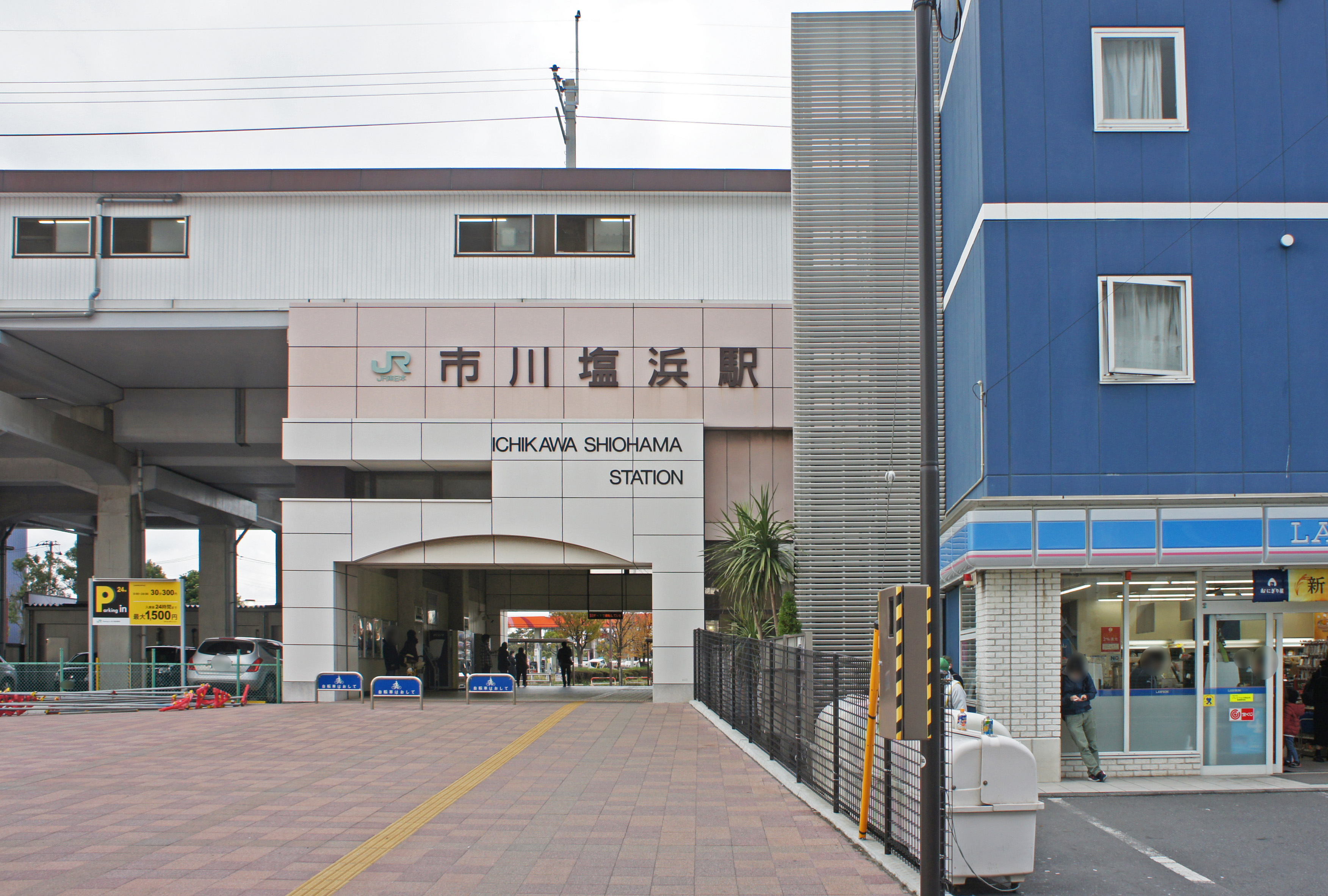 South Exit of JR Keiyo-Line Ichikawashiohama Station